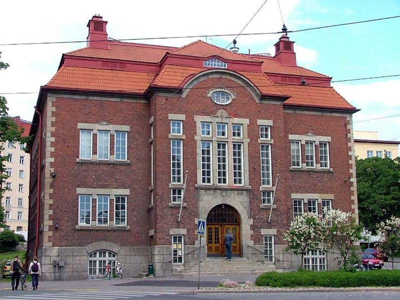 The Kallio Library, a branch of the Helsinki City Library, in Kallio, Helsinki, Finland.